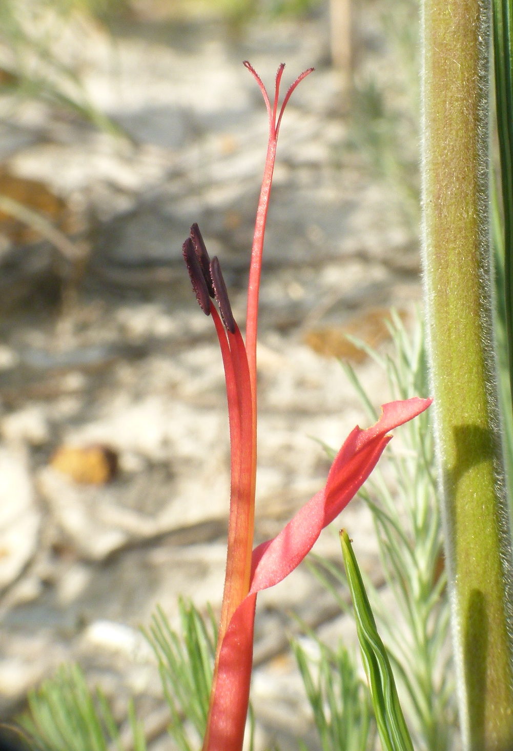 Babiana ringens flower, Cape Town near Koeberg